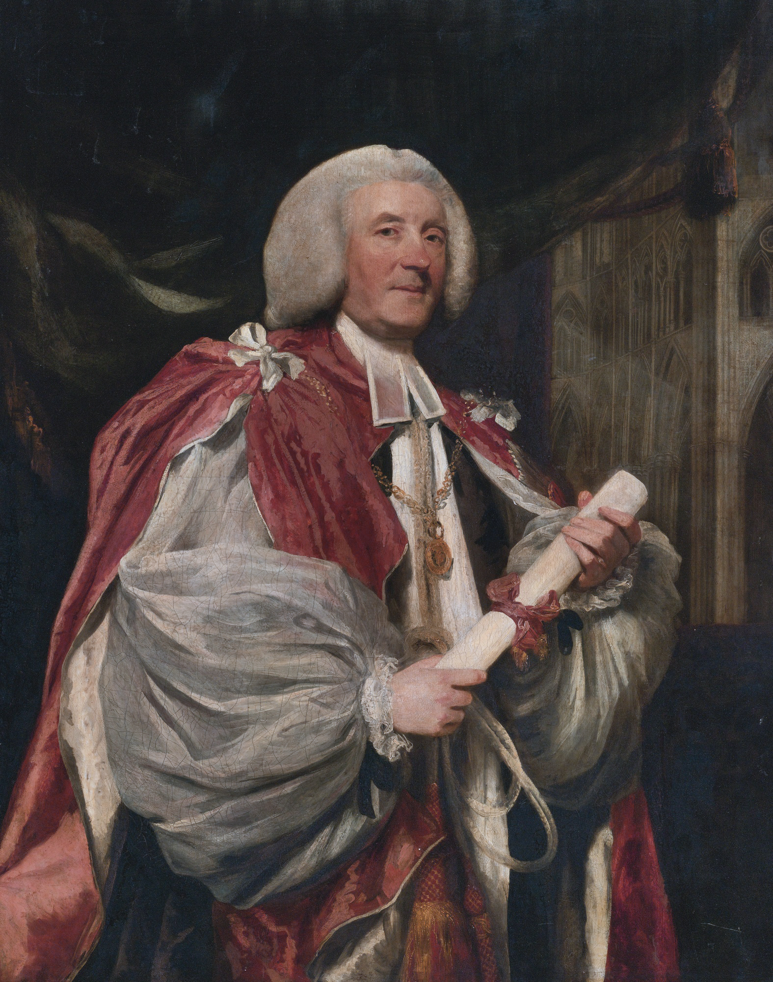 John Thomas, Bishop of Rochester oil on canvas 127.6 x 101.6 cm after 1774